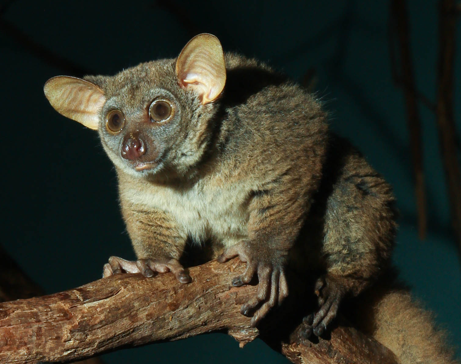 A Garnett's Galago or Greater Bushbaby (Otolemur garnetti) at the Cincinnati Zoo.